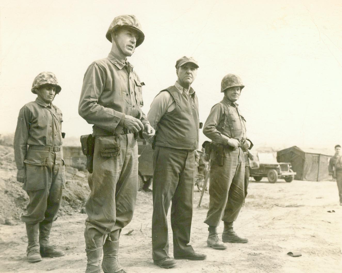 "Major General Oliver P. Smith say farewell in Korea to 1st Marine Division. Smith turned command over to Major General Gerald C. Thomas, center. Brigadier General Lewis B. Puller, assistant division commander is at far right and Colonel Edward W. Snedeker, Divisional Chief of Staff, in the back row 1951." From the Lewis B. Puller Collection (COLL/794) at the Marine Corps Archives and Special Collections OFFICIAL USMC PHOTOGRAPH